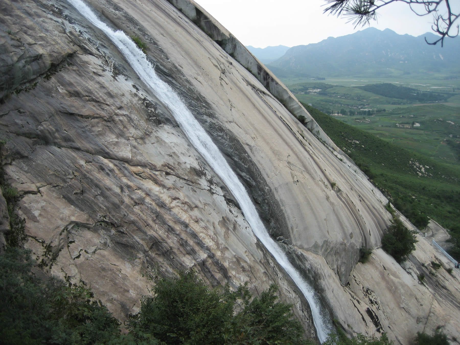 Waterfall at Mount Suyang near Haeju, DPRK.